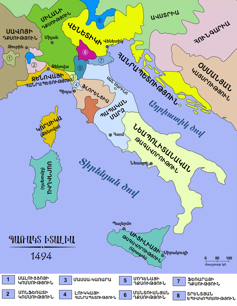 Historical map of Italy before reunification in 1494․